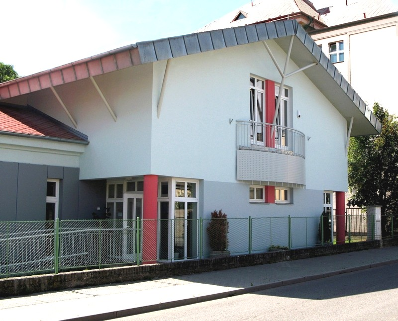 Public Library Radotin